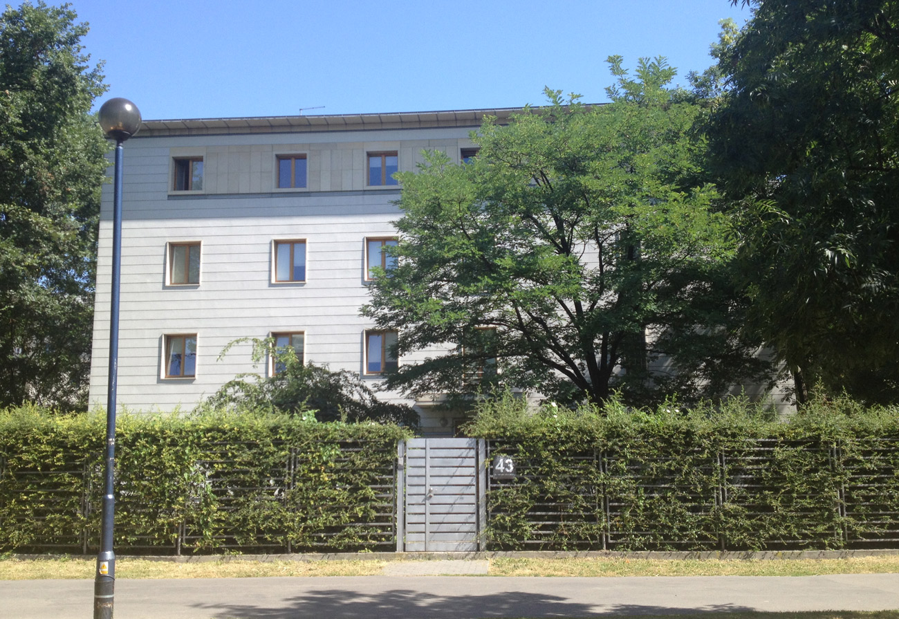 Barbakan (Kraków)